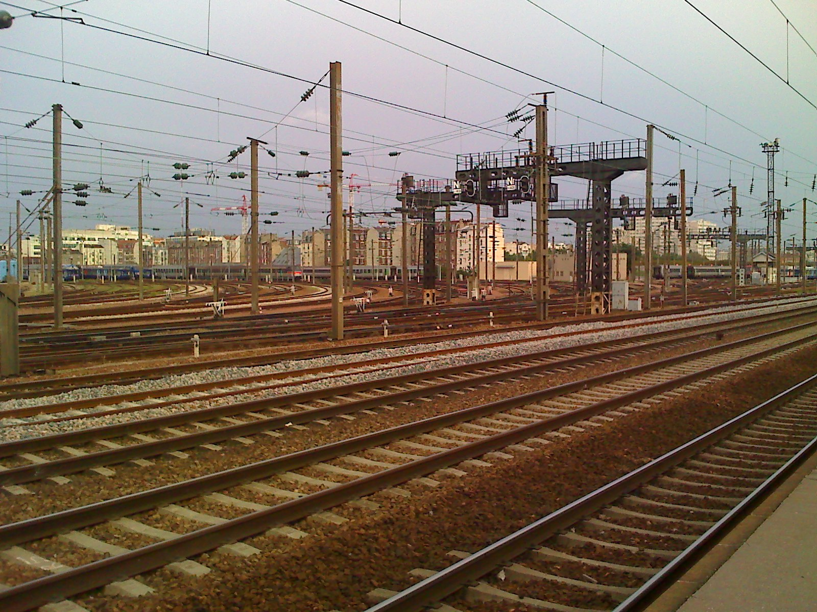 Switchyard at the railroad station of Clichy-Levallois, France